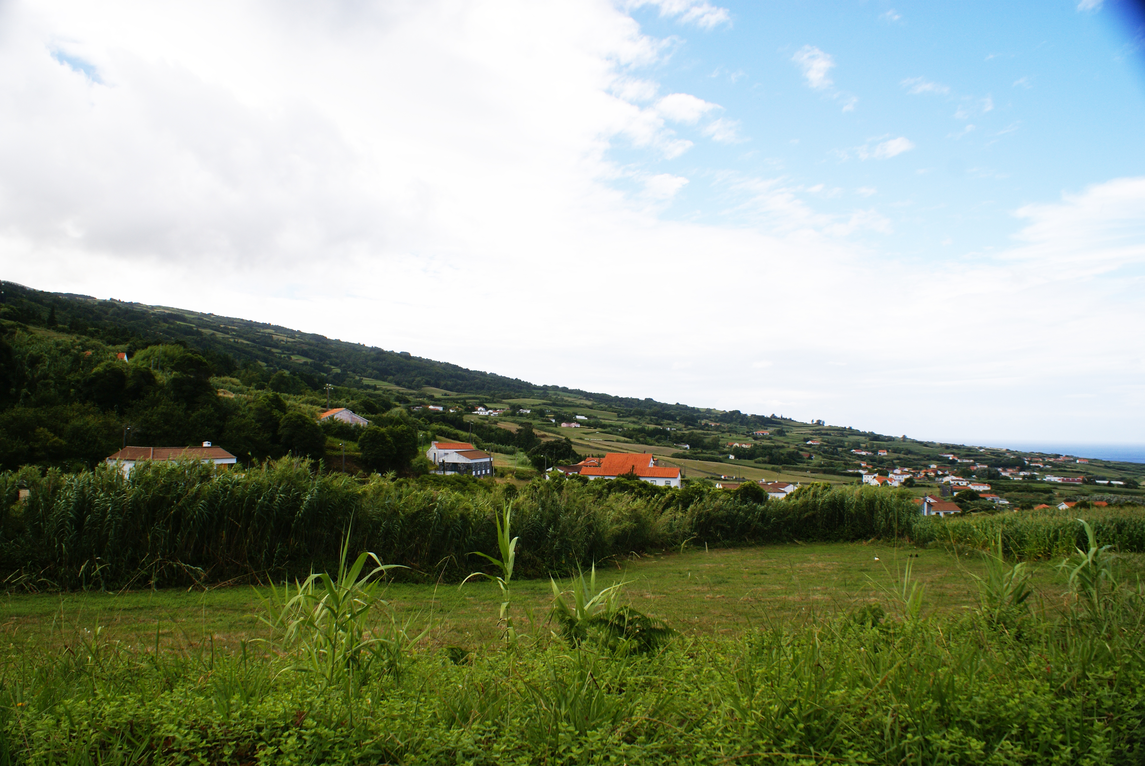 Scenic overlook of Salão, civil parish of Salão, municipality of Horta, Faial (Azores), Portugal